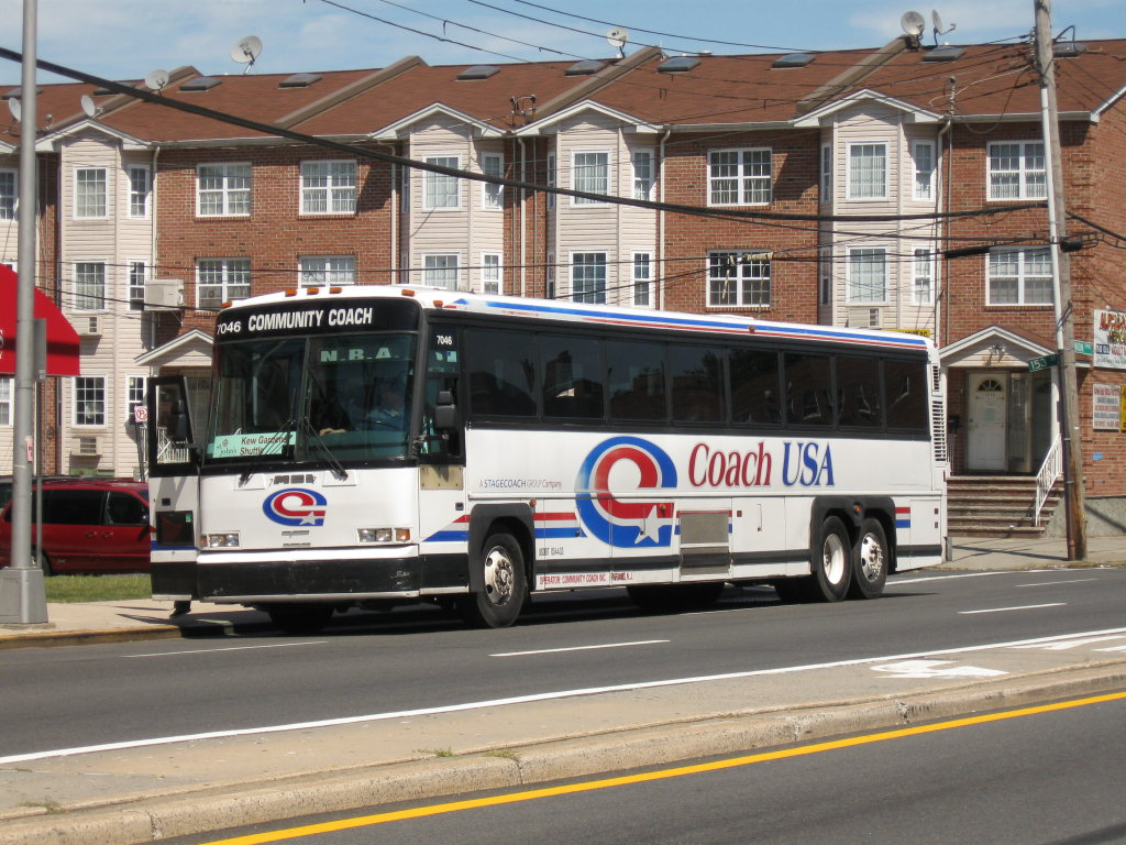 Coach USA Community Coach #7046 operates in shuttle service for St. John's University (New York) on the Kew Gardens shuttle.